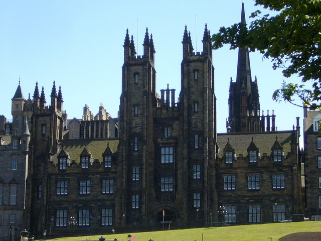 New College, Mound Edinburgh University's Divinity school, built in 1846 by the Free Church of Scotland on the site formerly occupied by the residence of James V's widow, Mary of Guise.